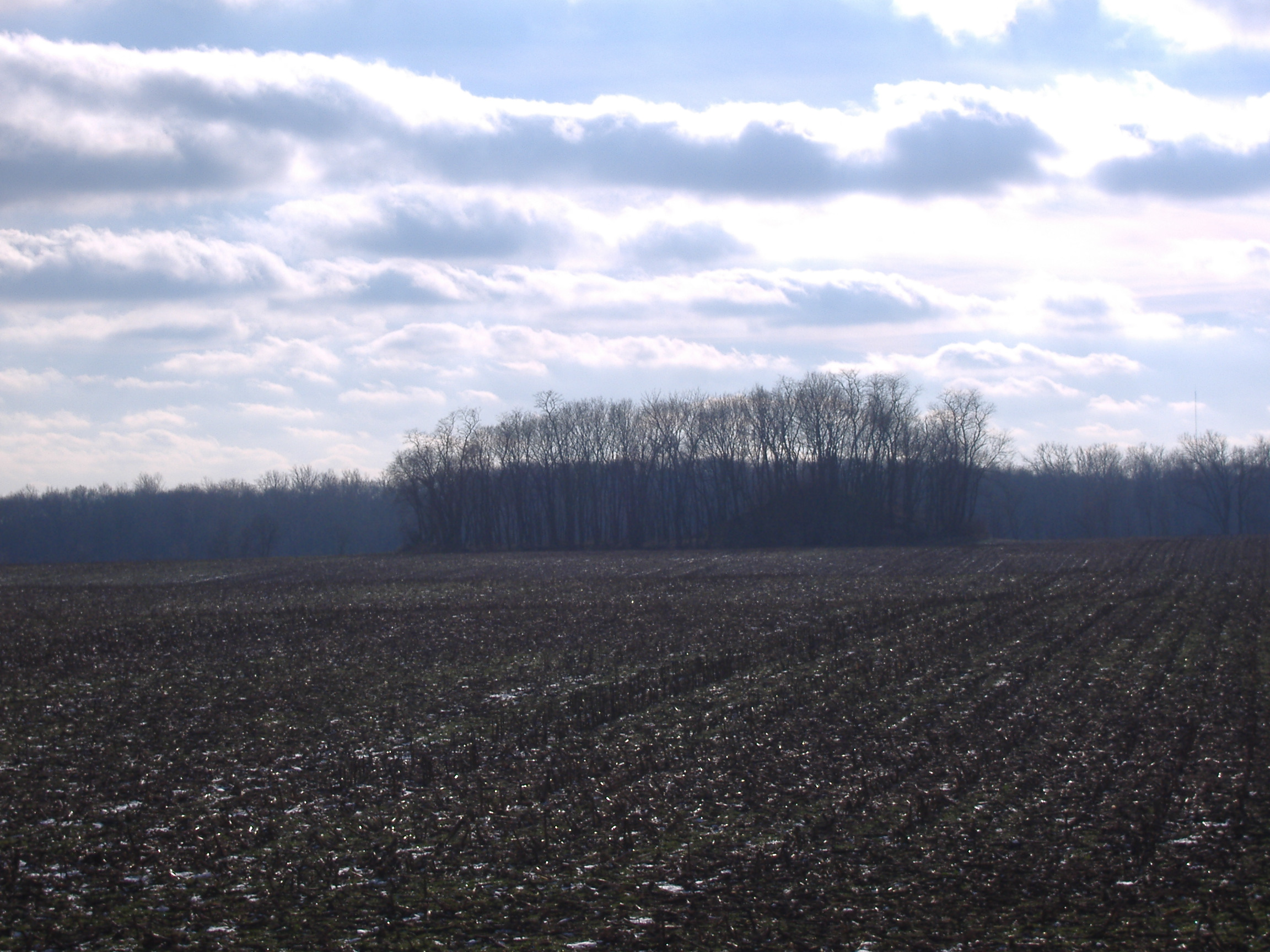 The W.C. Clemmons Mound located in Pickaway County, Ohio. This is as close as I could get to the mound as I didn't want to trespass on private property. And even this is with the telephoto option set to the maximum on the camera.